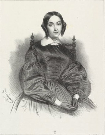 Drawing of Ethelie Madeleine Brohan (1833 - 1900), French actress